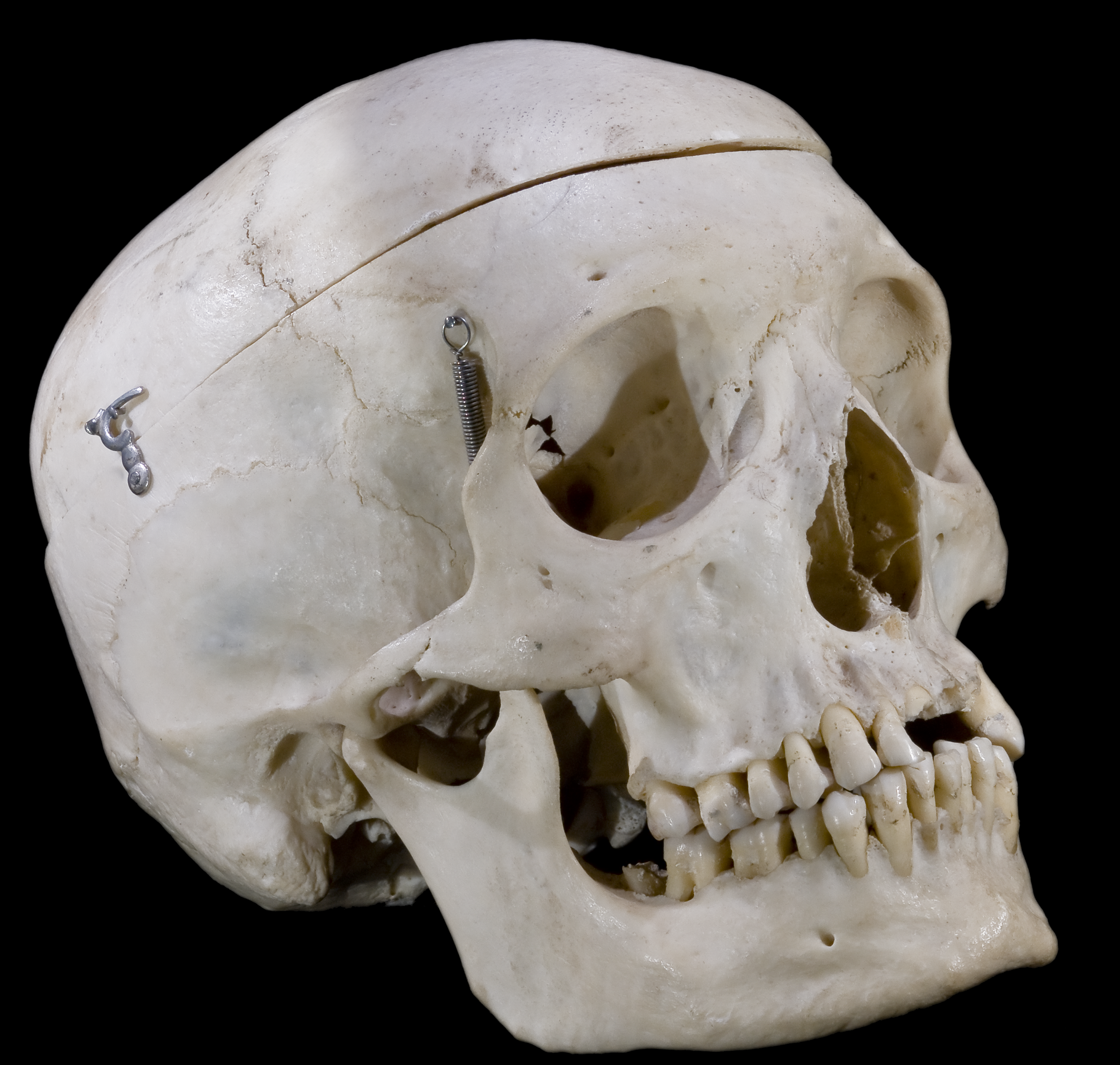 human skull